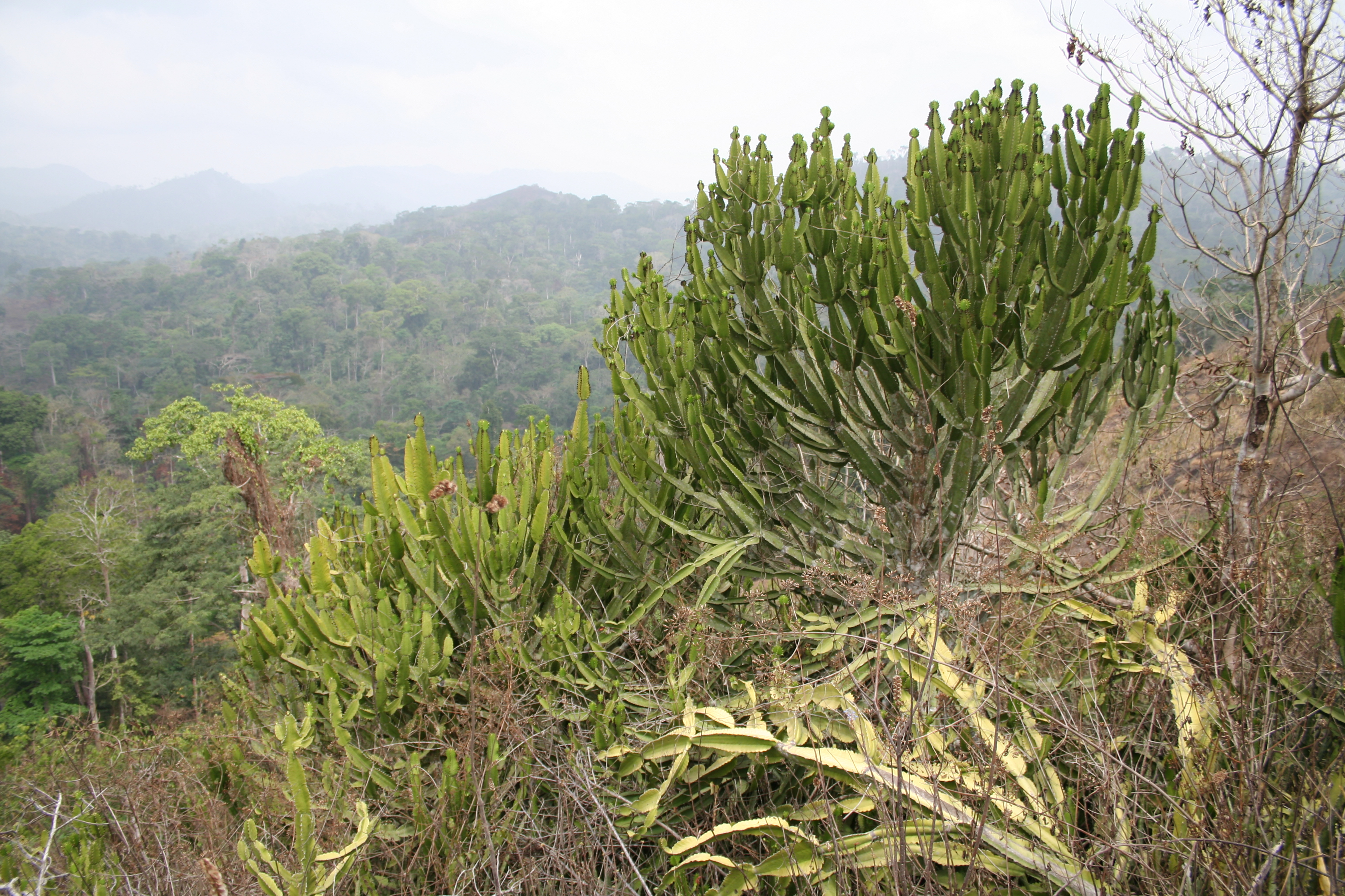 Euphorbia kamerunica, on an inselberg near Yaoundé, Cameroon